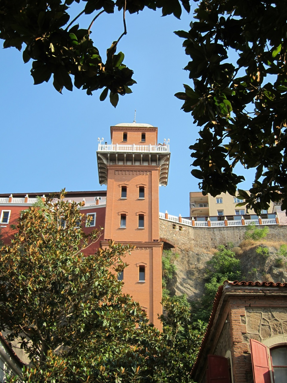 Asansor View from Dario Moreno Street Izmir Turkey